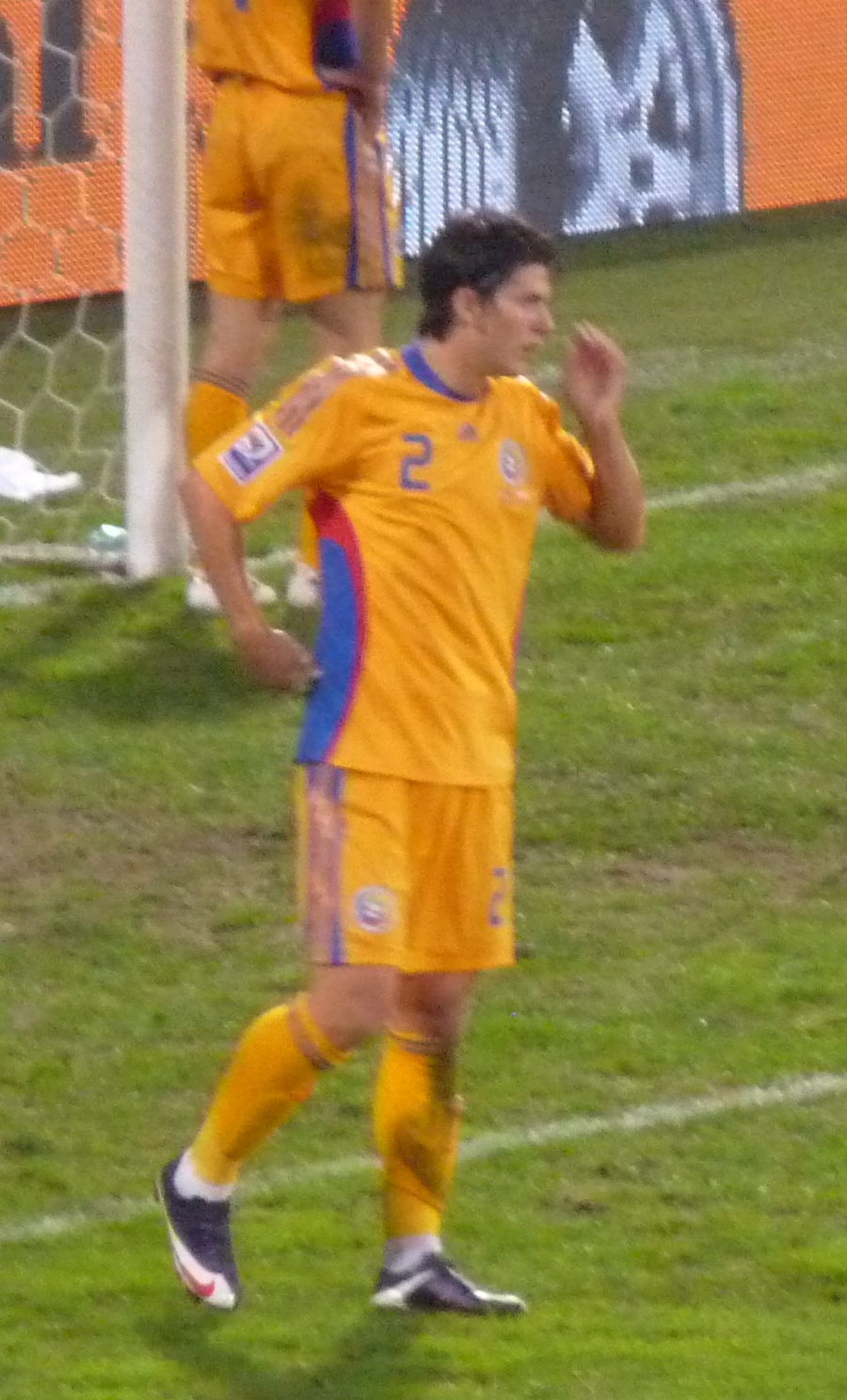 Cristian Săpunaru playing for the national football team of Romania against Austria on the Steaua stadium in Bucharest